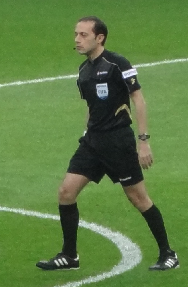 Cüneyt Çakır GS-Trabzonspor maçını yönetirken